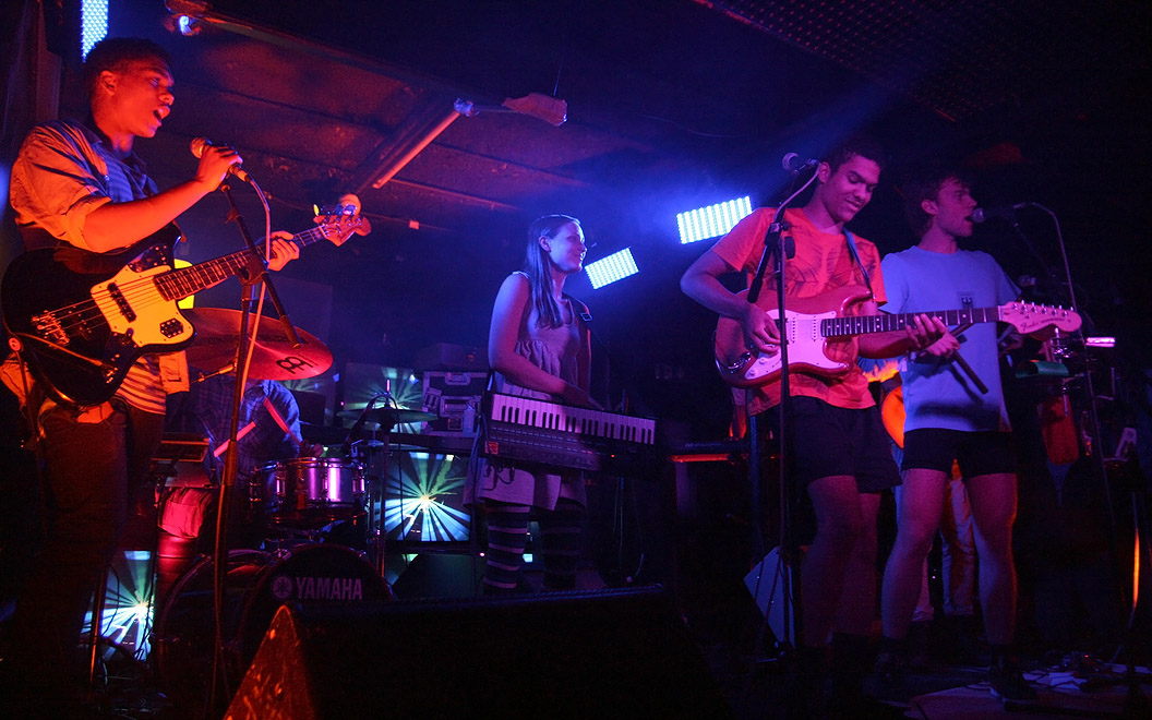 Retro Stefson, Waves Vienna Music Festival & Conference 2011 in Vienna.